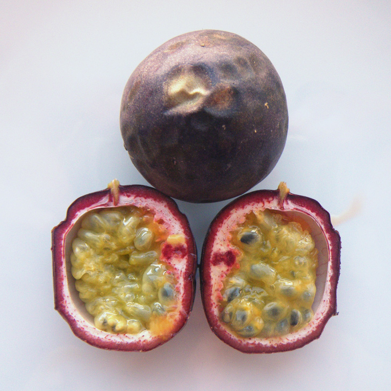 Two ripe purple passion fruits, one of them opened to show the edible seeds. This variety is called "gulupa" in Colombia, to distinguish it from the yellow "maracuyá" variety (see picture here).